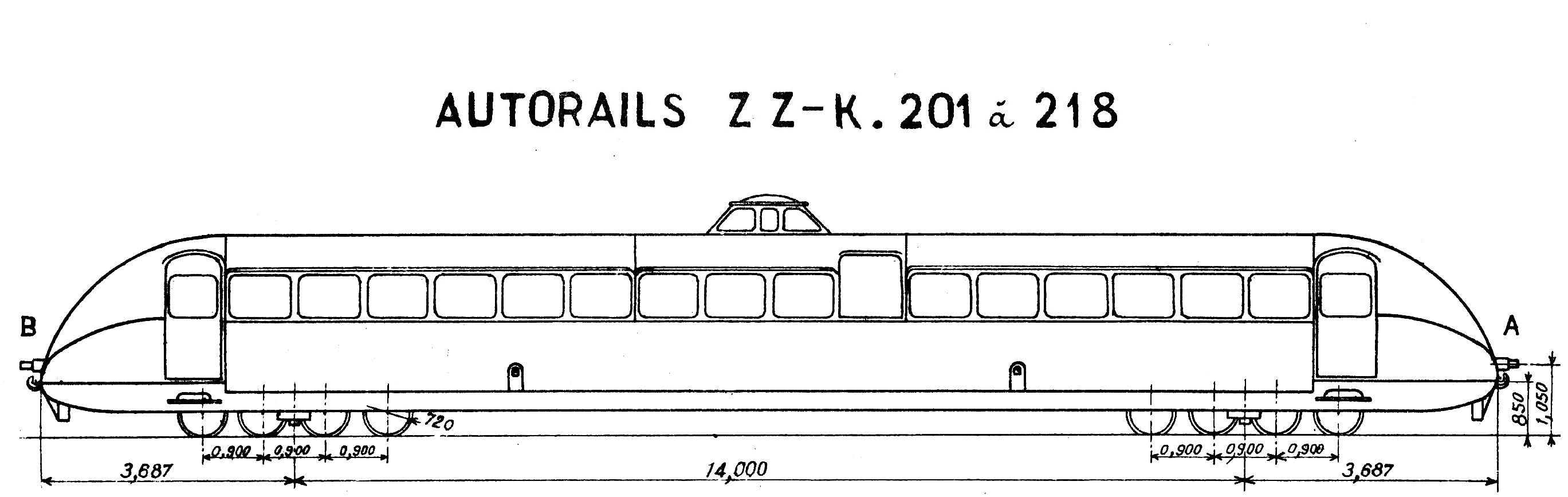 Drawing of railcar Bugatti PLM ZZ K 201-218.